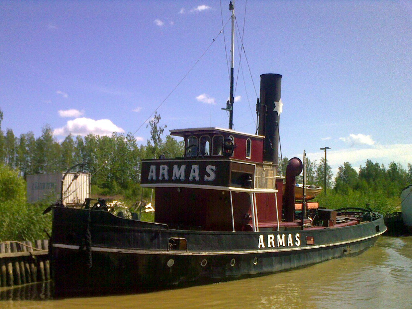 Steam ship S/S Armas in Porvoonjoki